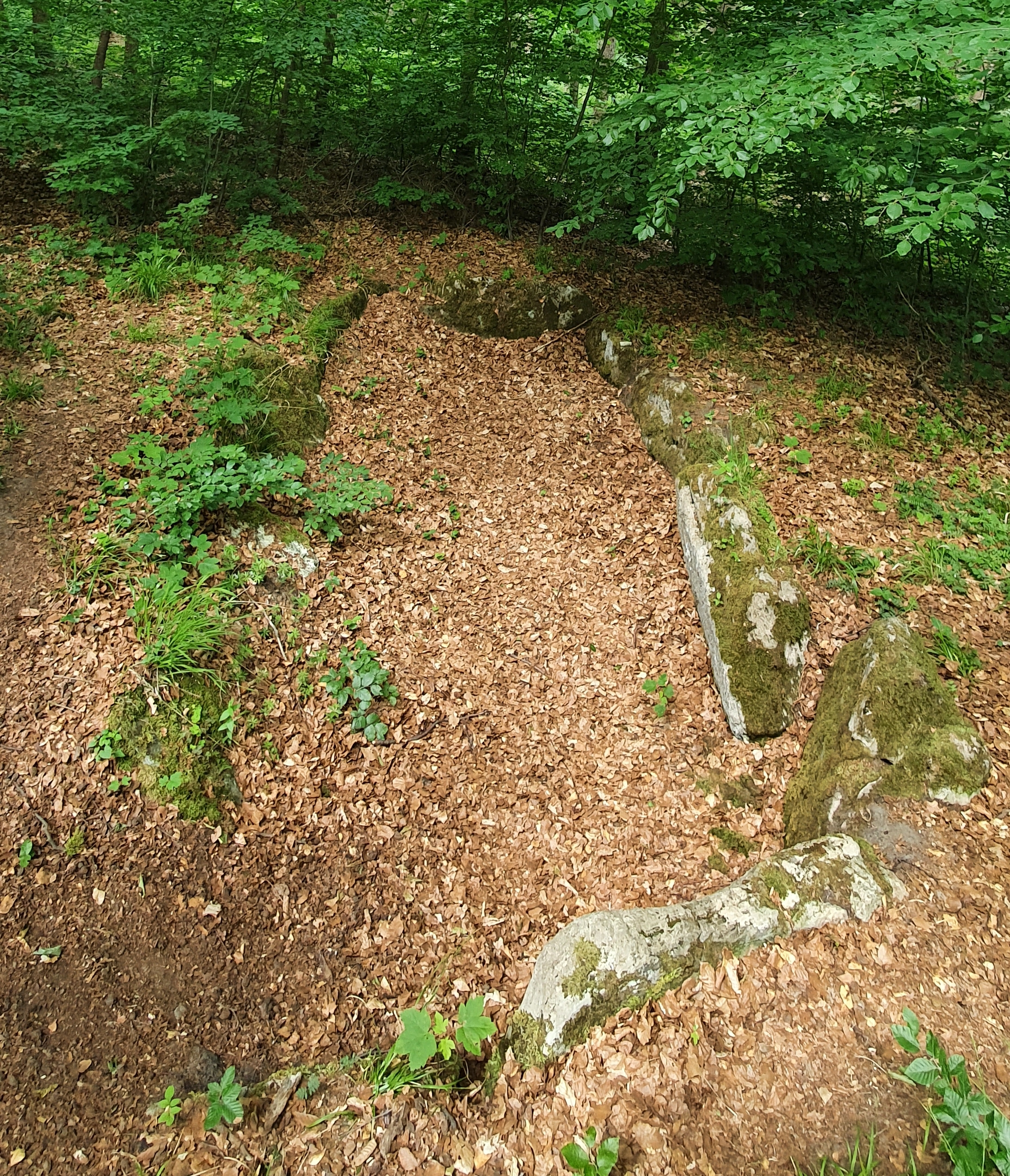 Stone chamber in Adamshai (Landkreis Wolfenbüttel, Lower Saxony)